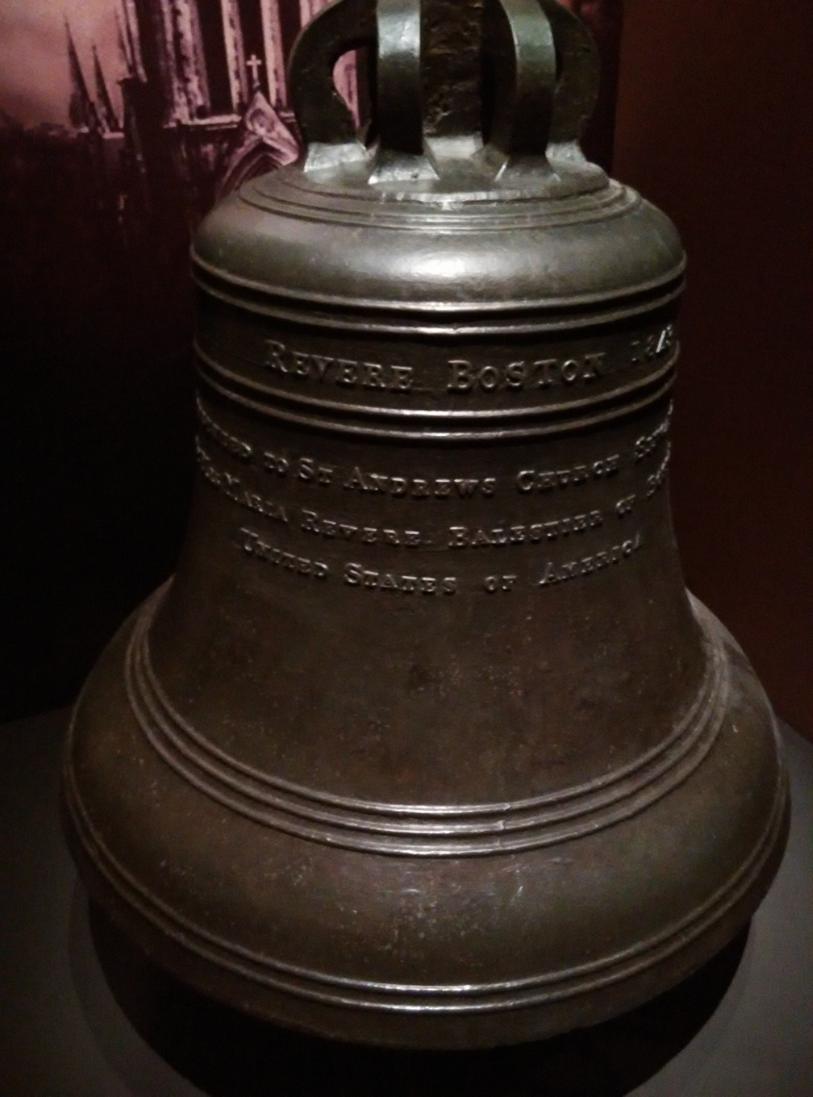 中文（香港）: Antique that shows relations between Singapore and the USA